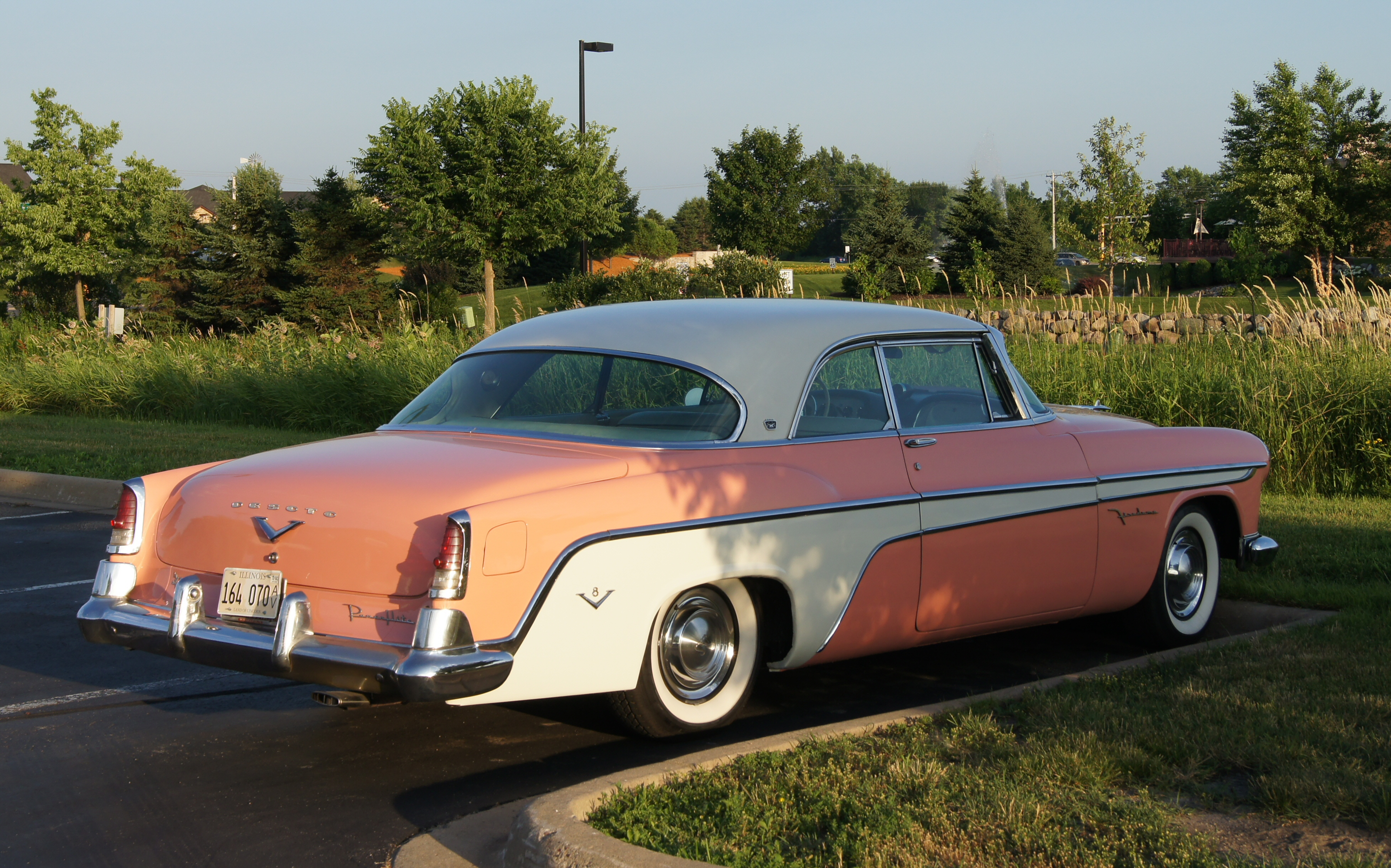 1st Combined Convention 28th Annual National DeSoto Club Convention & 44th Annual Walter P.Chrysler Club Convention July 17 - 21, 2013 Lake Elmo, Minnesota Click link below for more car pictures